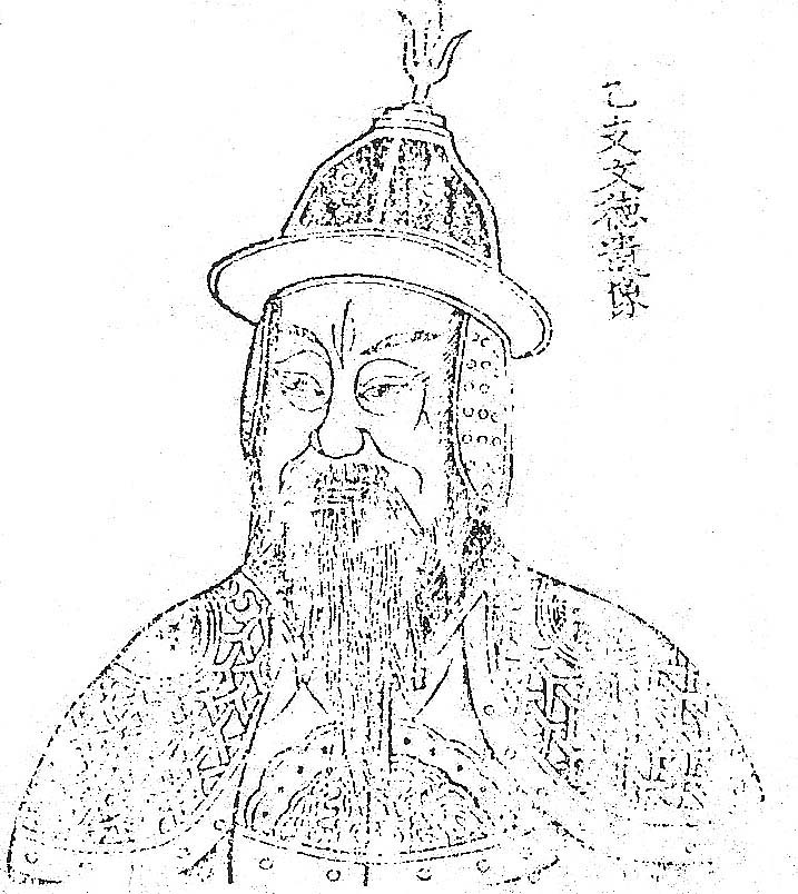 An old portrait of Eulji Mun-deok, the field marshal of Goguryeo during the second Goguryeo-Sui war. This image, carried as an illustration of the school textbook (初等大韓歷史) during the Korean Empire period, is probably a reproduction of the original sketch in the Joseon period.